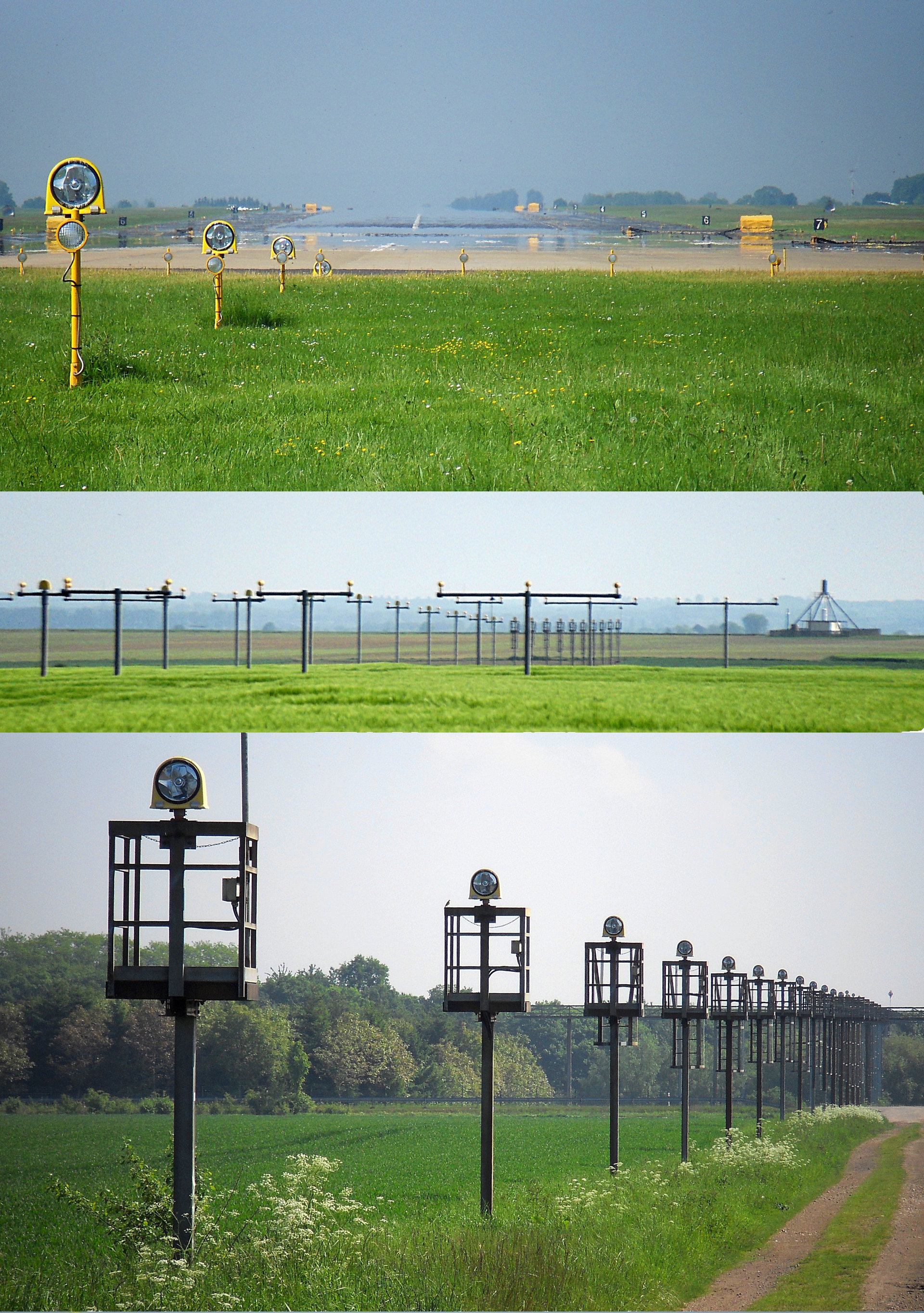 Parts of the Approach Lighting System of the Air Base Noervenich in Germany.